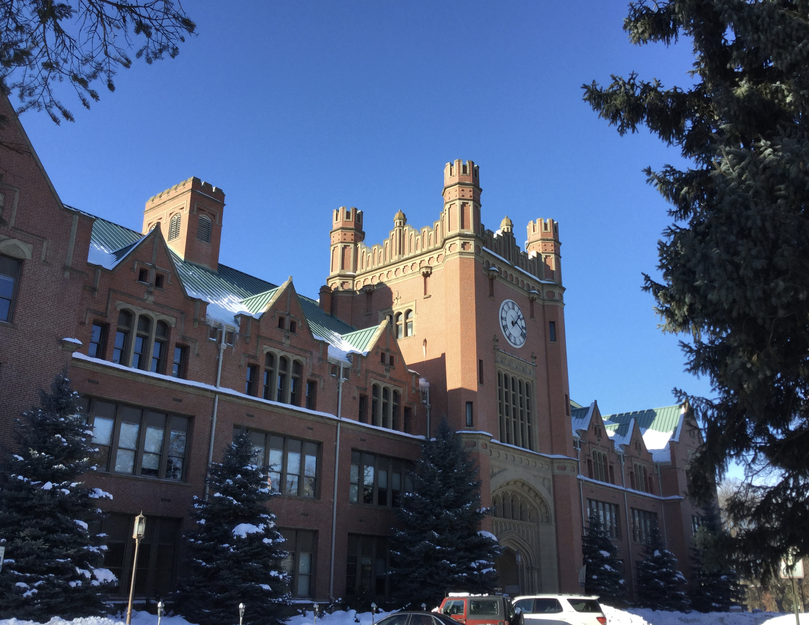 Administrative Building of the University of Idaho